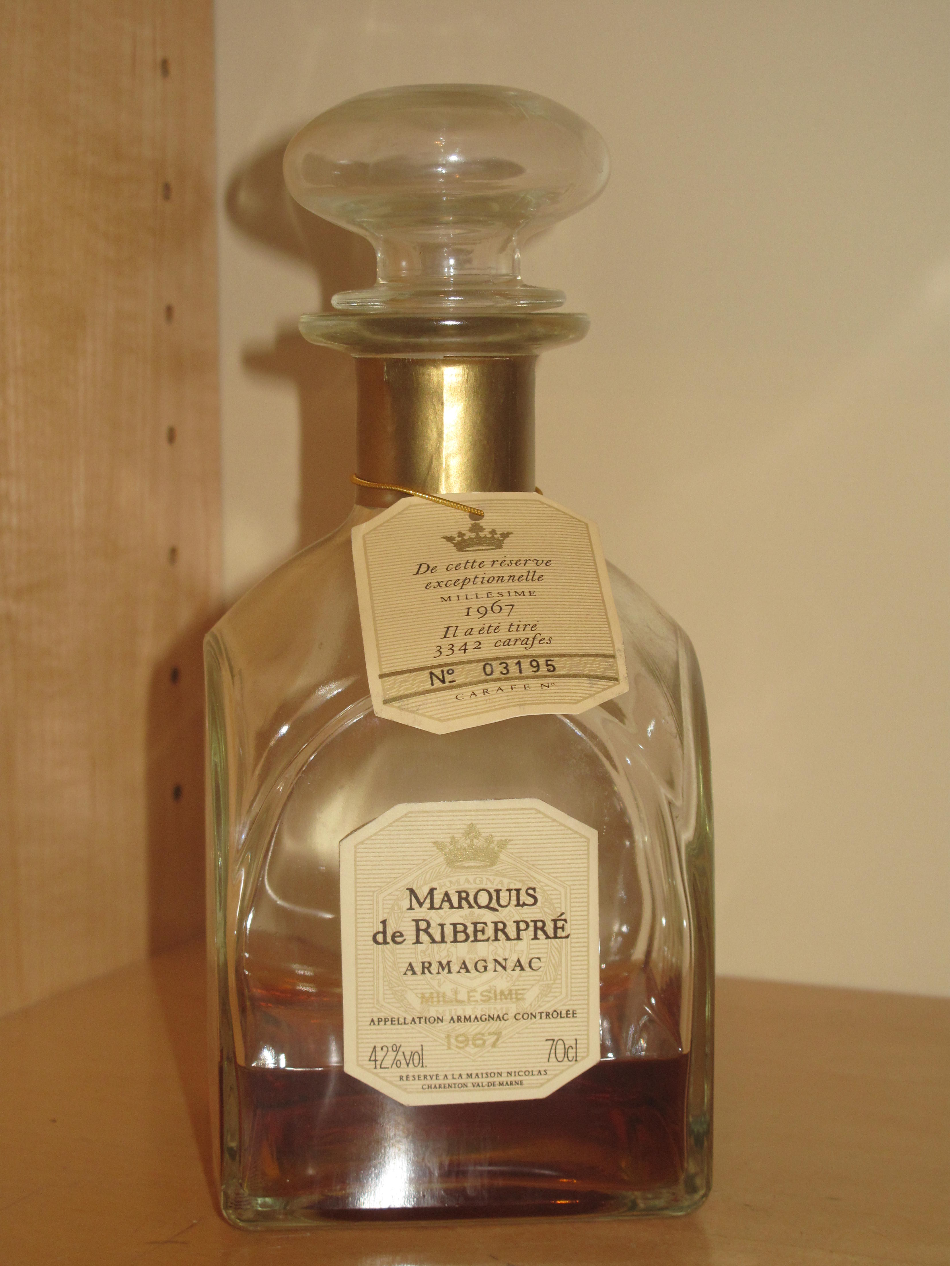 Bottle of millesimed Armagnac 1967